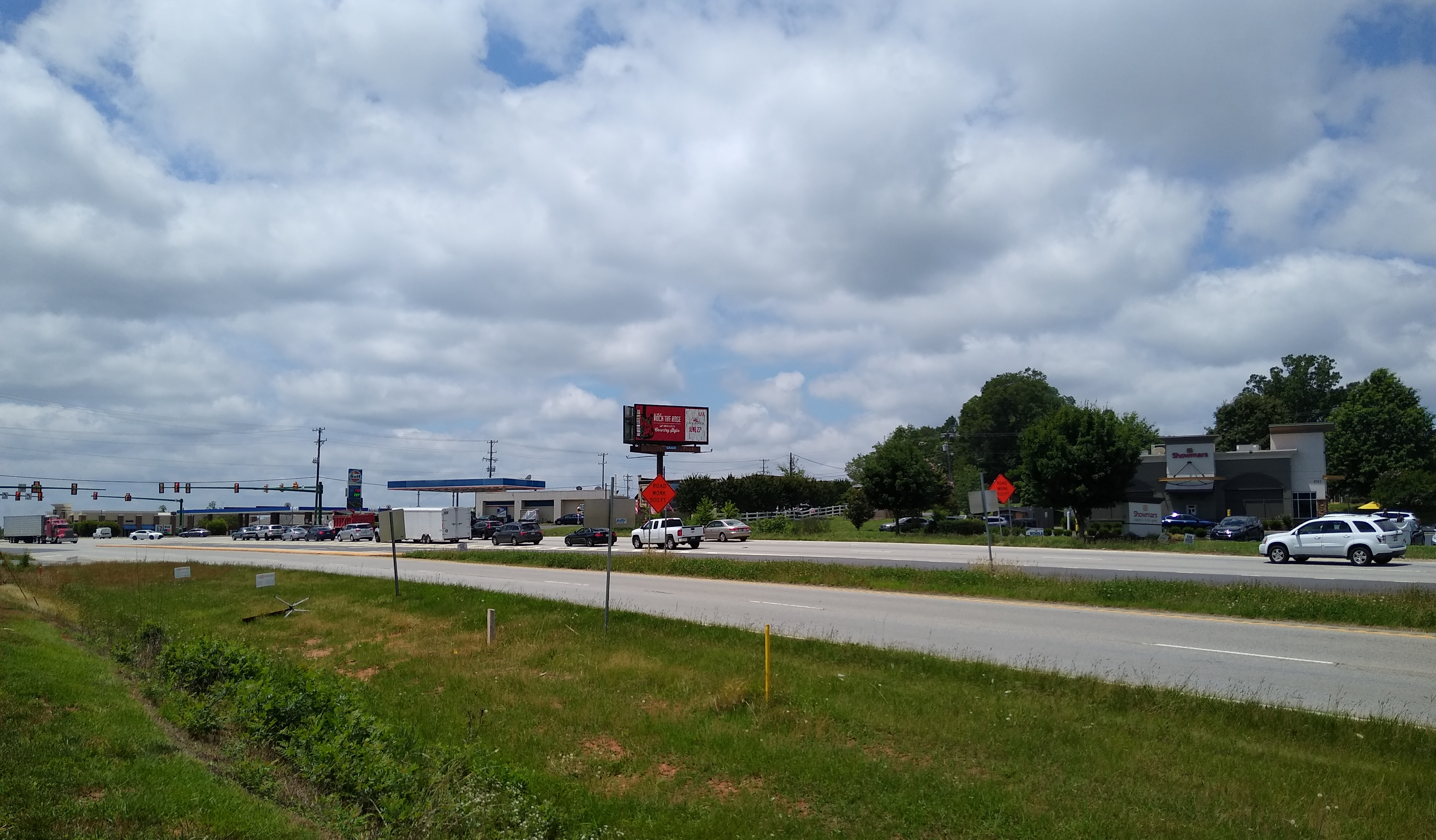 U.S. Route 521 passing through Indian Land, South Carolina.